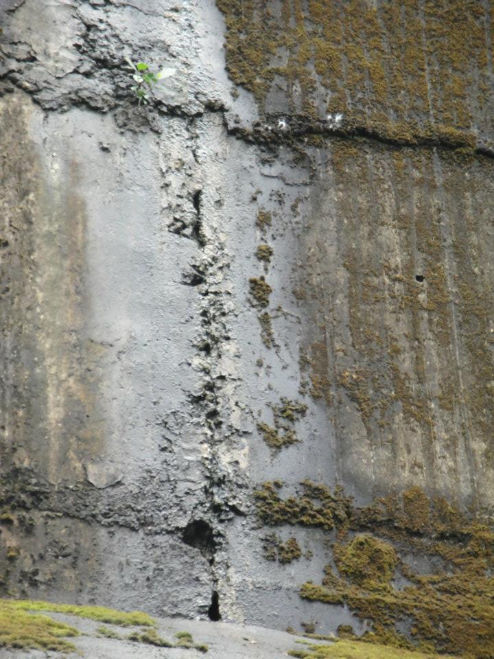 Leak Joints